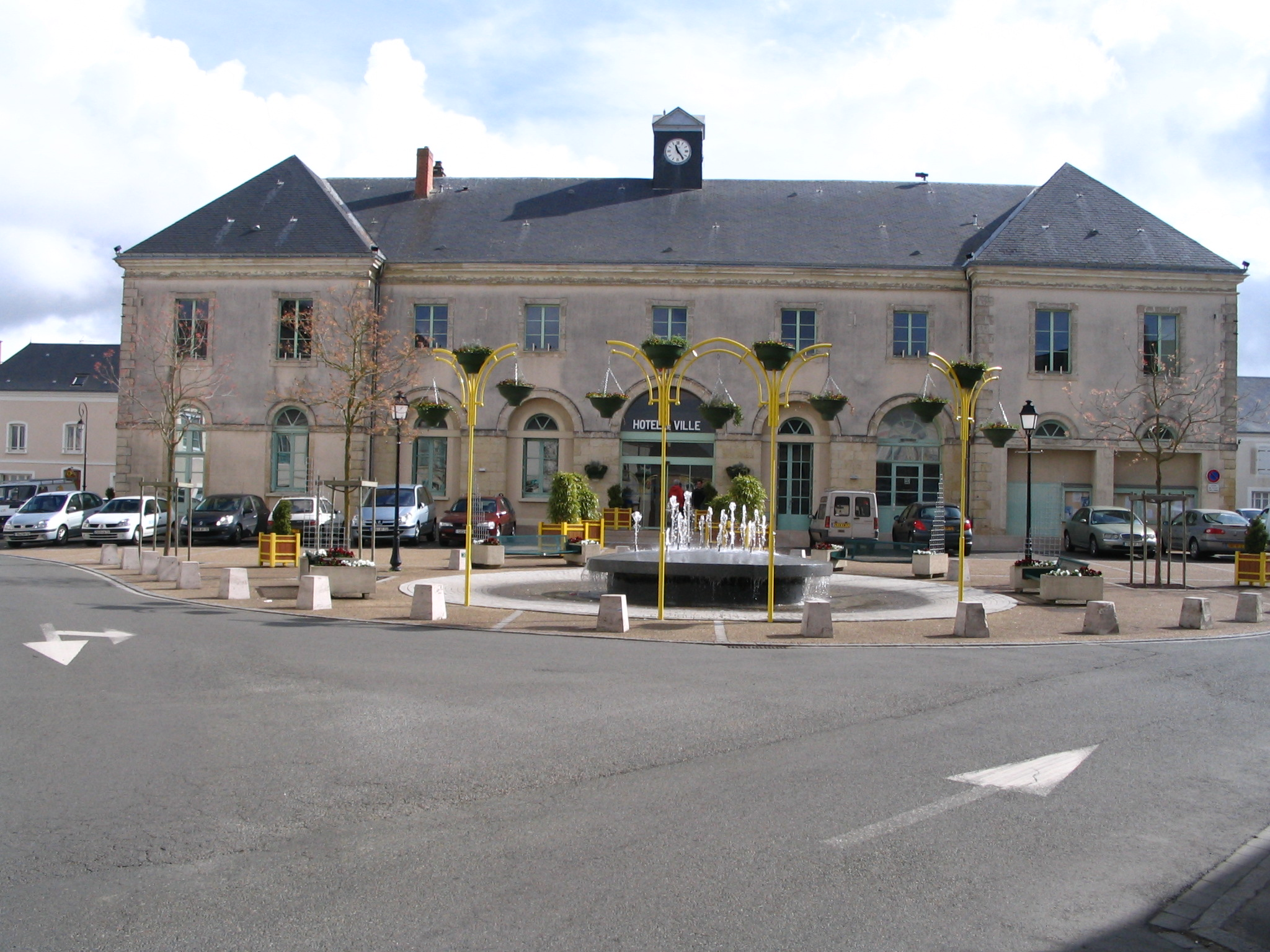 The town hall of Conlie, Sarthe, France.